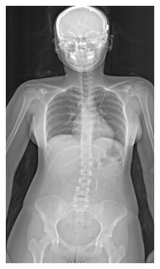 Projectional radiograph of a ventriculoperitoneal shunt.